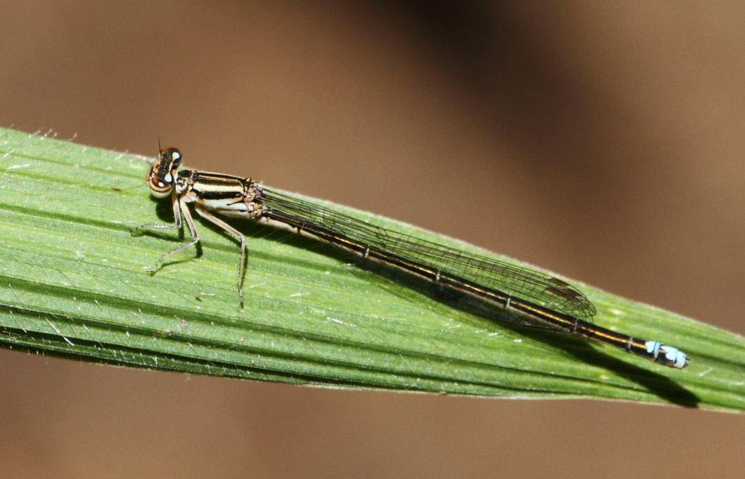 Female Kersten's Sprite, Pietermaritzburg, KwaZulu-Natal, South Africa